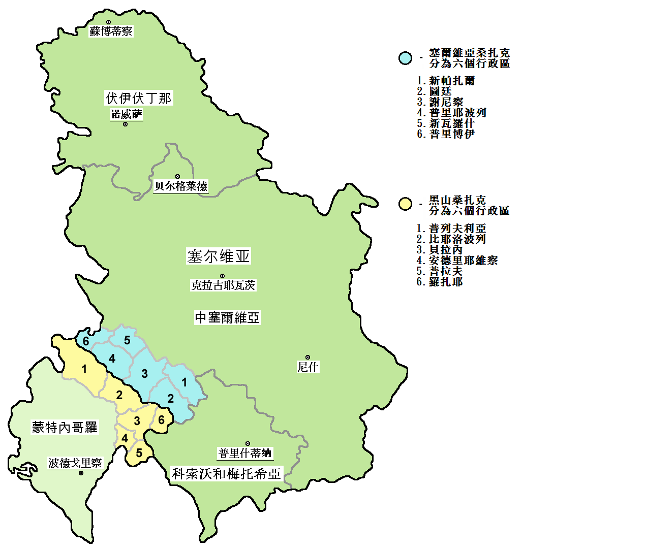 Sandžak in Serbia and Montenegro - both countries' share is divided into six municipalities. This is Chinese version.